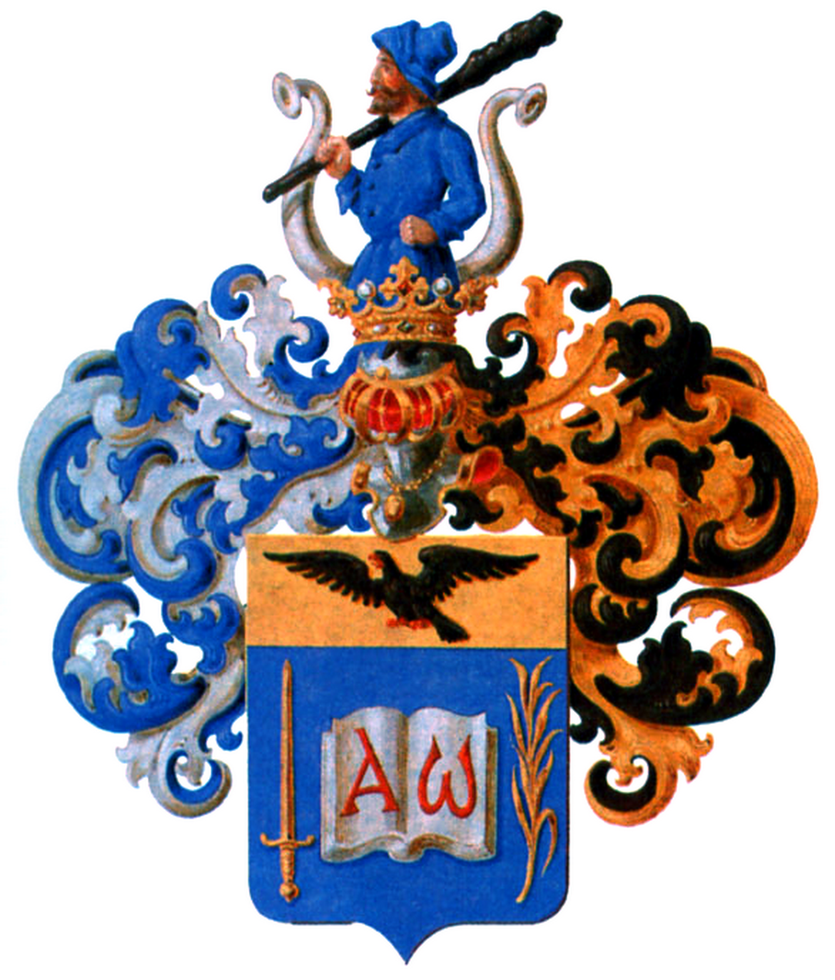 Coat of Arms of von Tischendorf